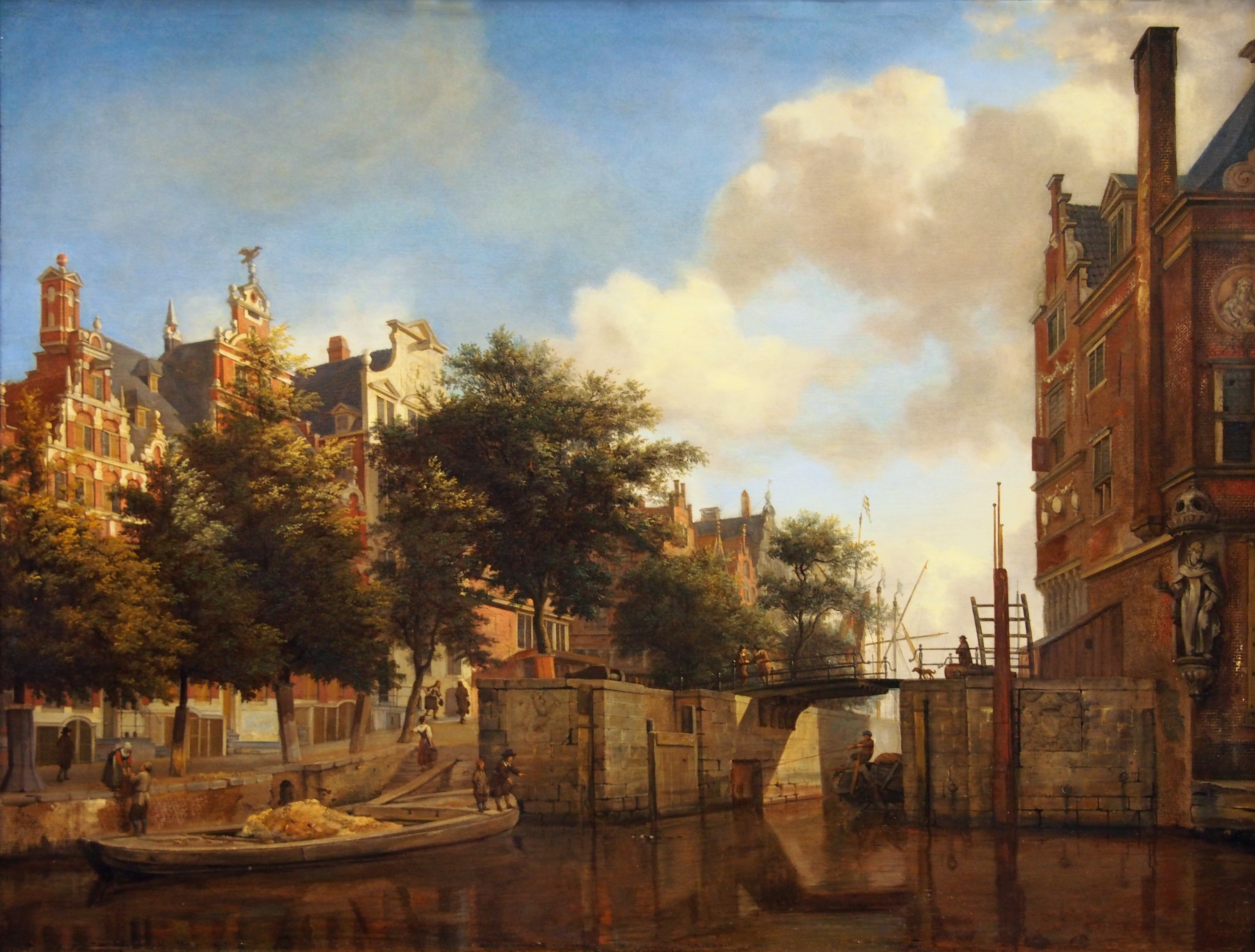 Amsterdam City View with Houses on the Herengracht and the old Haarlemmersluis